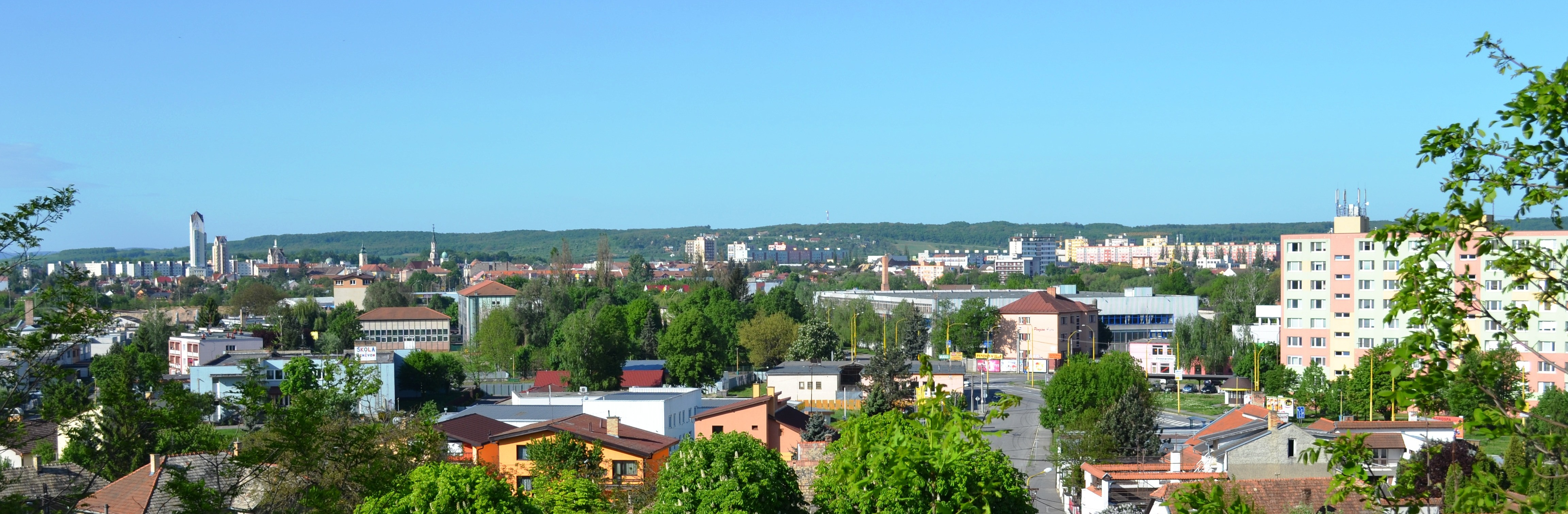 View of the town Lučenec